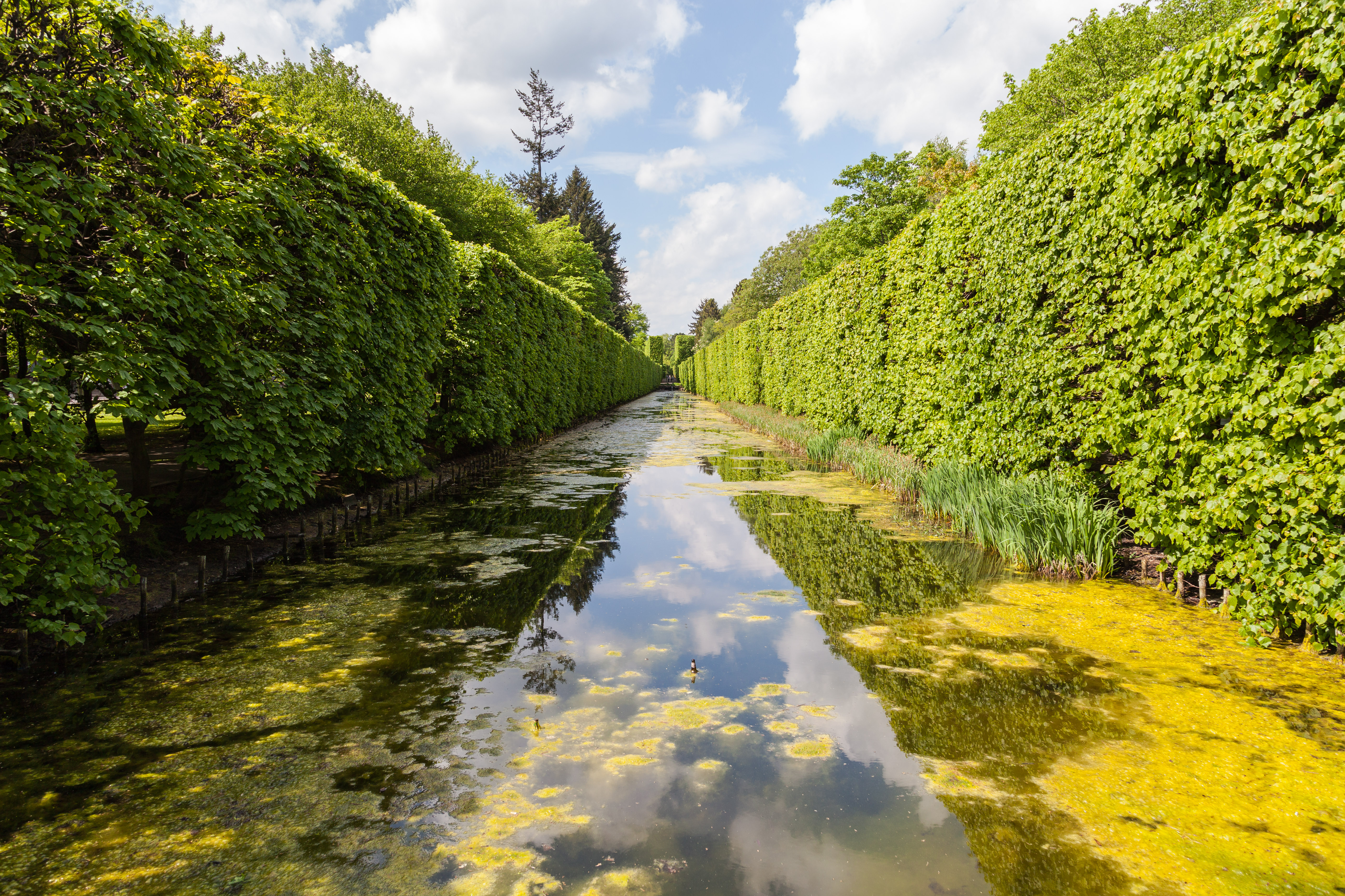 Adam Mickiewicz Park, Oliwa, Gdańsk, Poland.